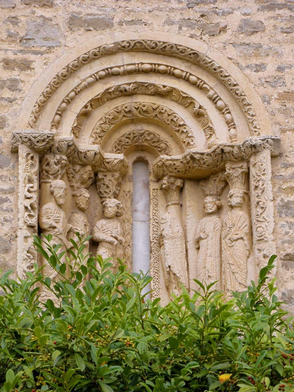 Ventanal románico de la iglesia de N. S. de la Asunción de Lasarte (Vitoria-Gasteiz)